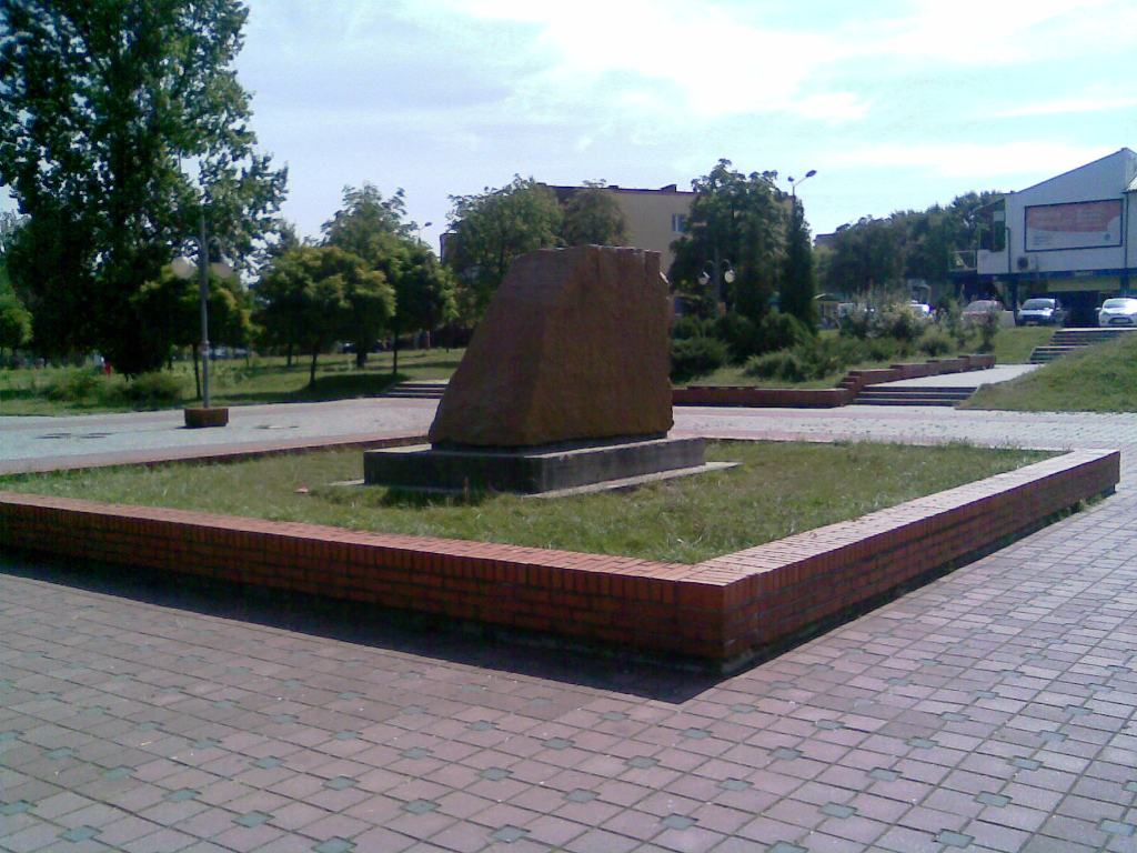 St. Herbert square in Katowice